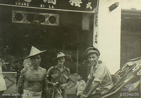 From the Australian War Memorial Collection Photograph 030346/05 Photograph caption: Maker: Burke, Frank Albert Charles Physical description: Black & white Summary: Kuching, Sarawak. 12 September 1945. Street scene in Kuching soon after occupation by the Allies. Official War Artist, Tony Rafty, in a rickshaw. Sergeant K. Rainsford, Military History Section, in centre background. Note the sign above the entrance is translated in English, 'Shang Ri La'.